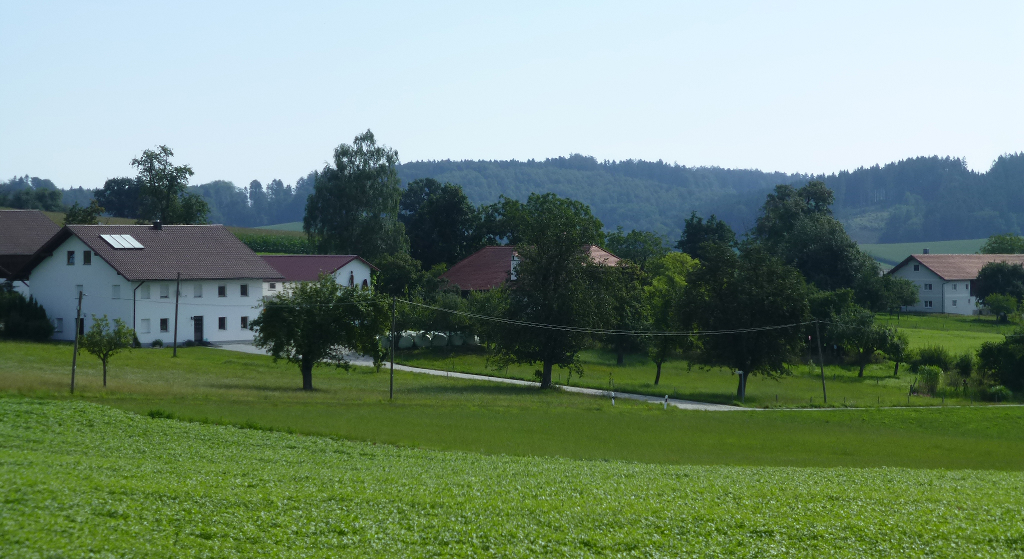 Fields and houses at Vorderhainberg, Ortsteil Ortenburg, Lower Bavaria, morning light.